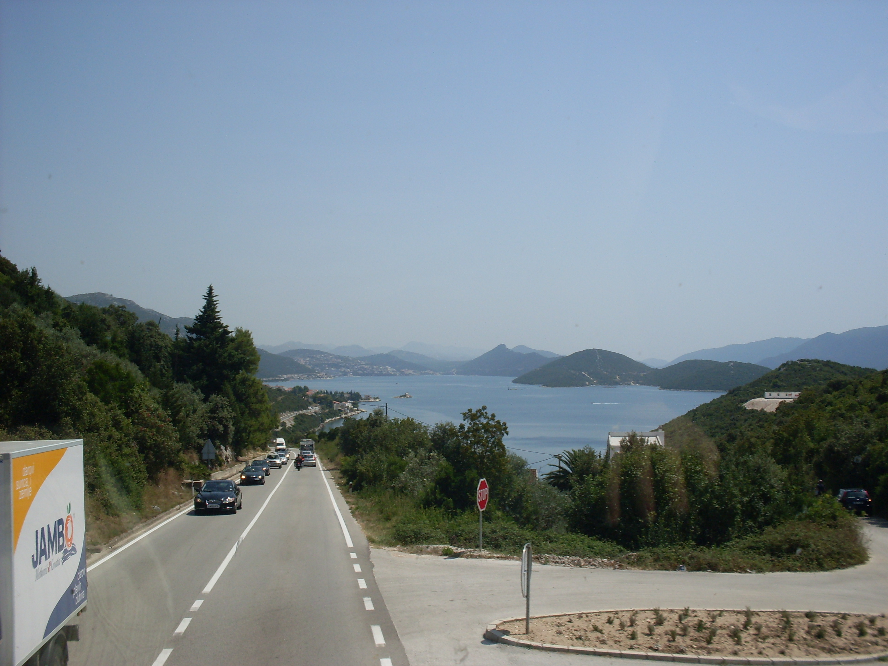 Neum bay, view from Croatia